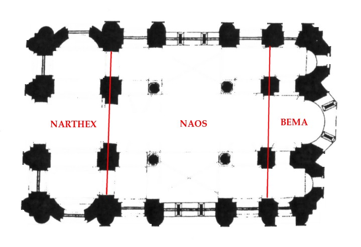 Self-made; based on plan of the Myrelaion in R. Ousterhout, Master builders of Byzantium (Princeton, 1999), Fig. 2.